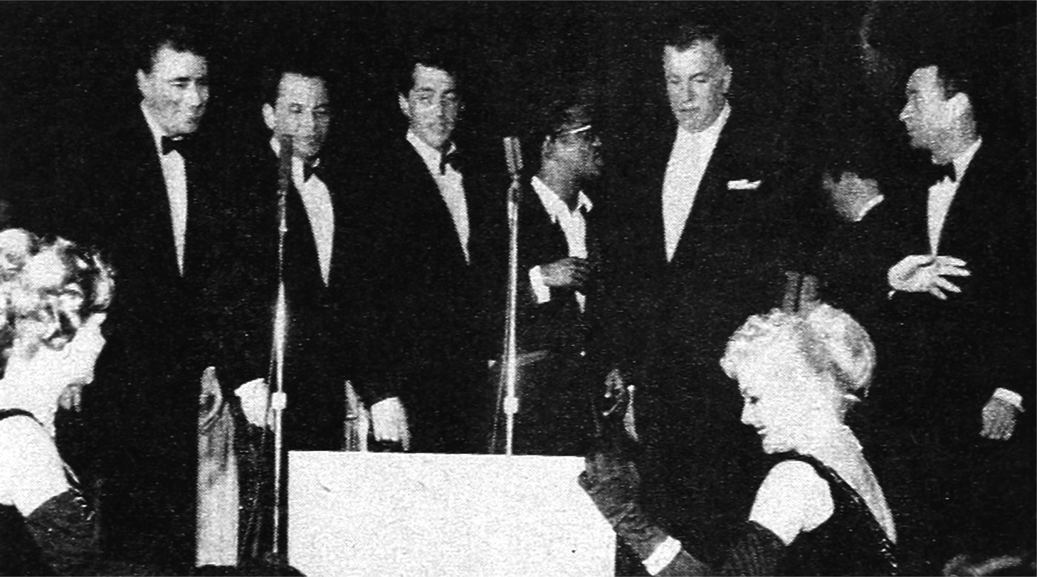 Photo of the Rat Pack onstage with Jack Entratter at the Sands Hotel in Las Vegas. This was one of the shows given at the hotel during the filming of ‘’Ocean’s 11’’. From left: Peter Lawford, Frank Sinatra, Dean Martin, Sammy Davis, Jr., Jack Entratter and Joey Bishop.